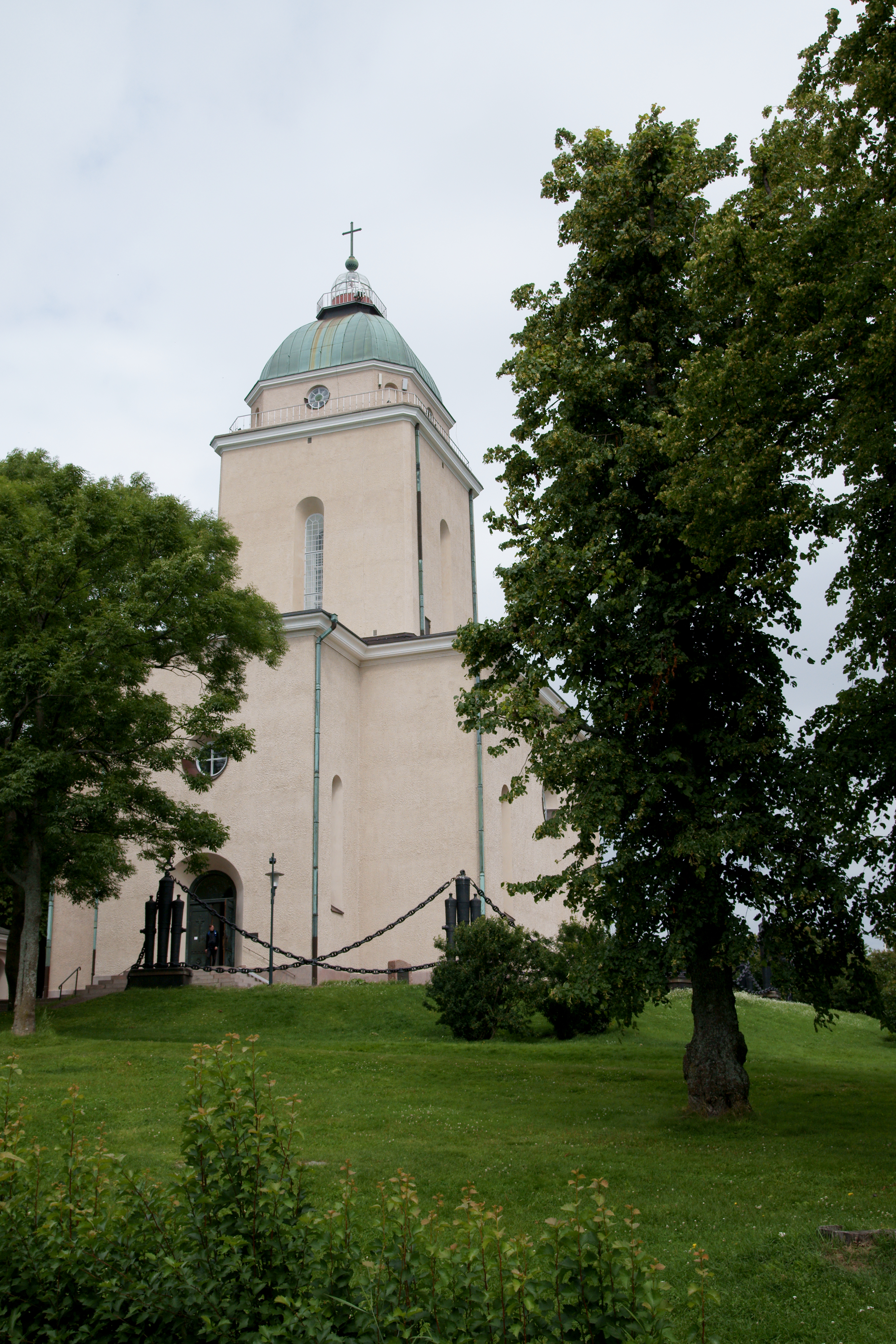 Suomenlinna Church.